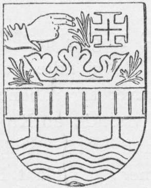 Coat of arms of Køge, a chartered town in Denmark, 1421 version. Illustration from the article Om danske By- og Herredsvaaben written by Anders Thiset and published in Tidsskrift for Kunstindustri 1893-1894.